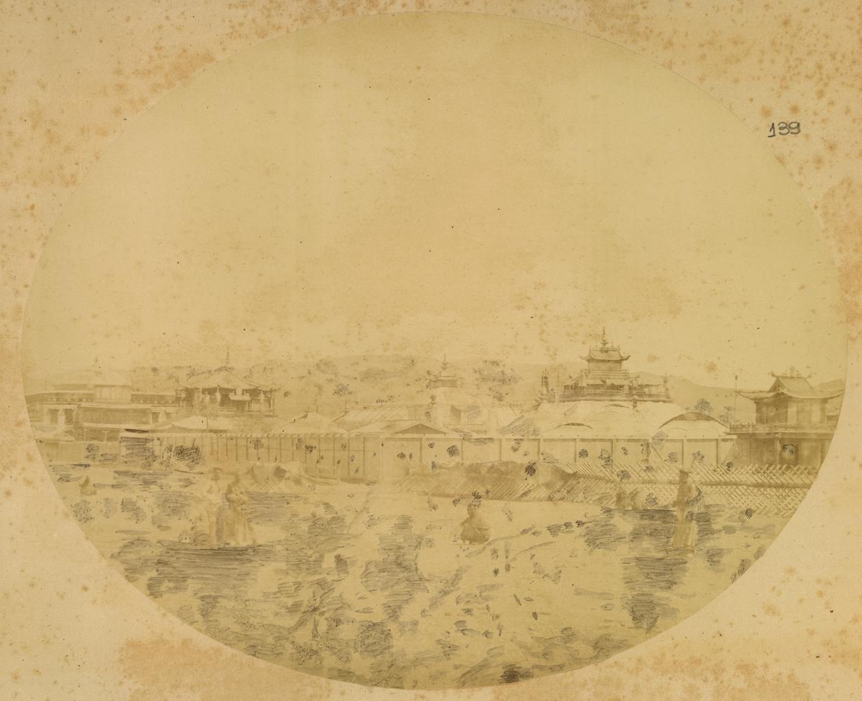 In 1874-75, the Russian government sent a research and trading mission to China to seek out new overland routes to the Chinese market, report on prospects for increased commerce and locations for consulates and factories, and gather information about the Dungan Revolt then raging in parts of western China. Led by Lieutenant Colonel Iulian A. Sosnovskii of the army General Staff, the nine-man mission included a topographer, Captain Matusovskii; a scientific officer, Dr. Pavel Iakovlevich Piasetskii; Chinese and Russian interpreters; three non-commissioned Cossack soldiers; and the mission photographer, Adolf Erazmovich Boiarskii. The mission proceeded from Saint Petersburg to Shanghai via Ulan Bator (Mongolia), Beijing, and Tianjin, and then followed a route along the Yangtze River, along the Great Silk Road through the Hami oasis, to Lake Zaysan, back to Russia. Boiarskii took some 200 photographs, which constitute a unique resource for the study of China in this period. Most of the photographs are included in this album, which later became part of the Thereza Christina Maria Collection assembled by Emperor Pedro II of Brazil and given by him to the National Library of Brazil. Castles and palaces; Memory of the World; Temples